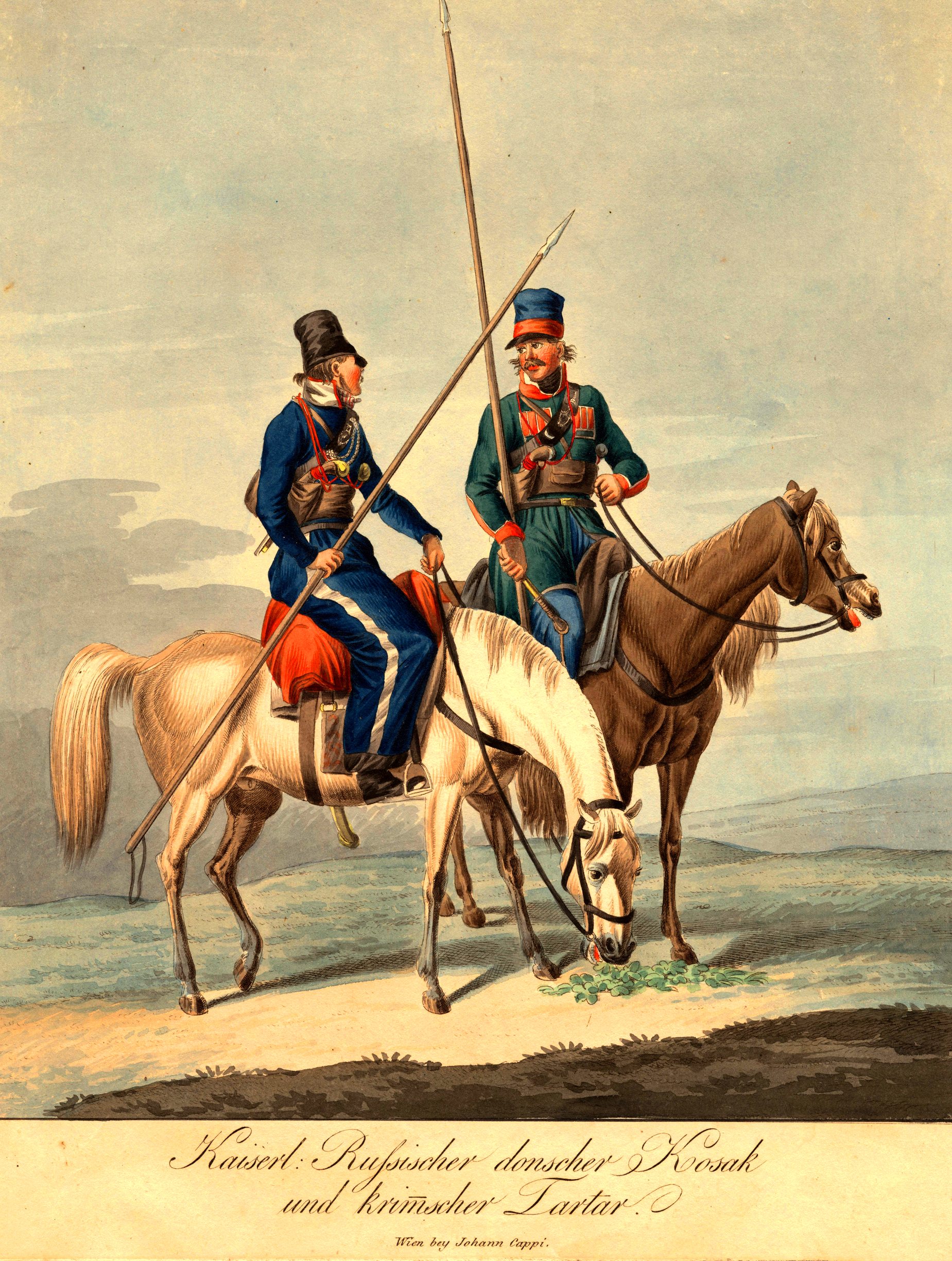 2 mounted cavalrymen, 1 Cossack and 1 Crimean Tartar, outdoors